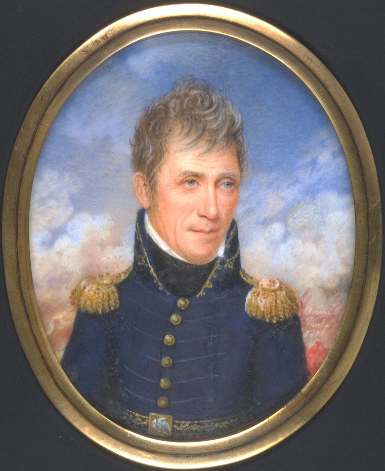 Portrait of Andrew Jackson (1767–1845)